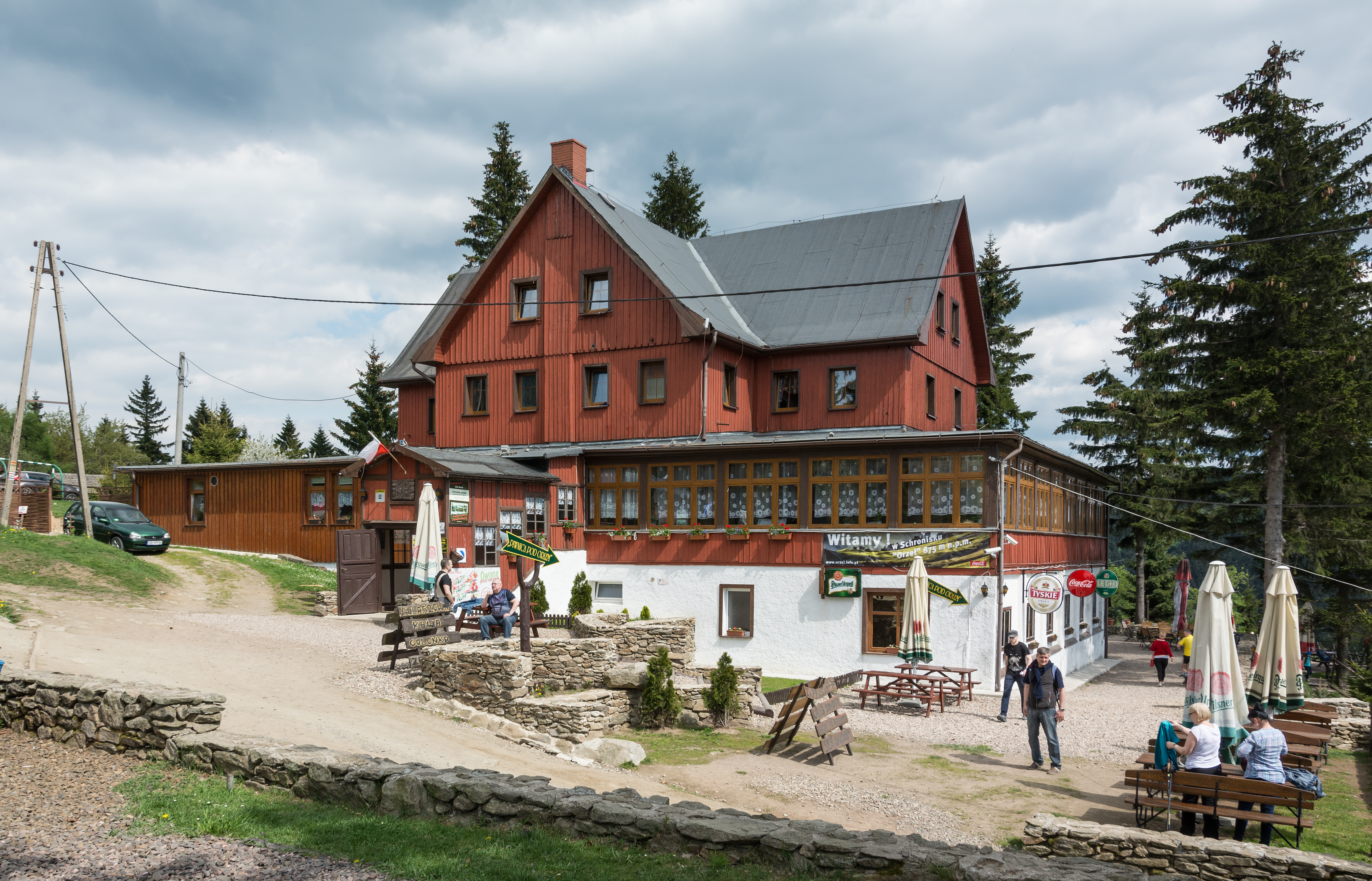 Orzeł Hostel, Sowie Mountains, Sudetes